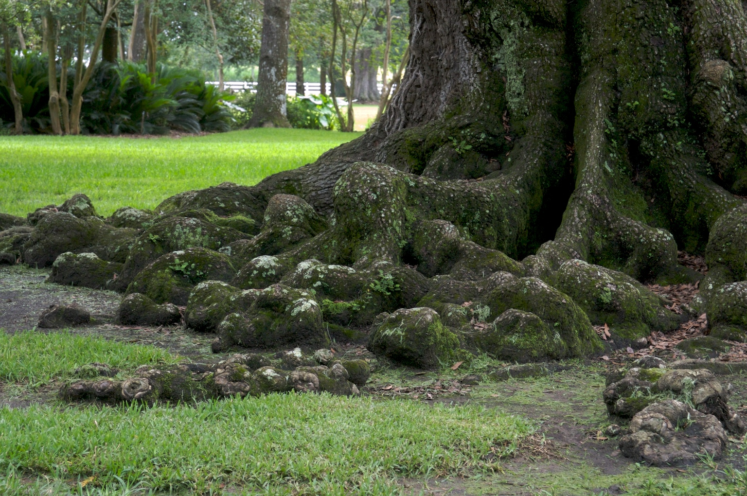 The roots and trunk of a live oak (Quercus virginiana) on the Oak Alley Plantation in Louisiana.